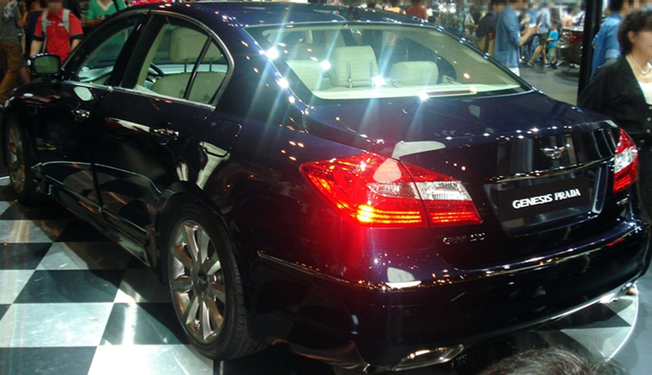 Hyundai Genesis Prada